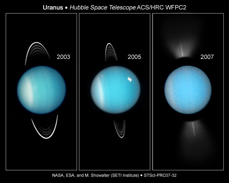 Seasonal change on Uranus as the planet approaches its equinox (the right image). The bright southern polar collar becomes dimmer. On the middle image a bright cloud is visible.